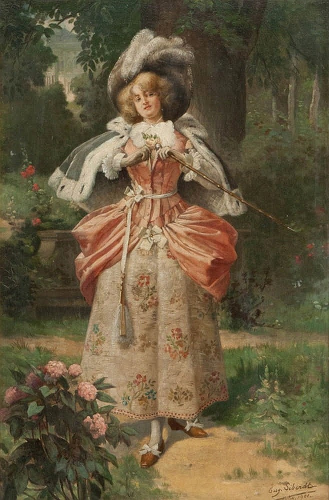 Lady in park